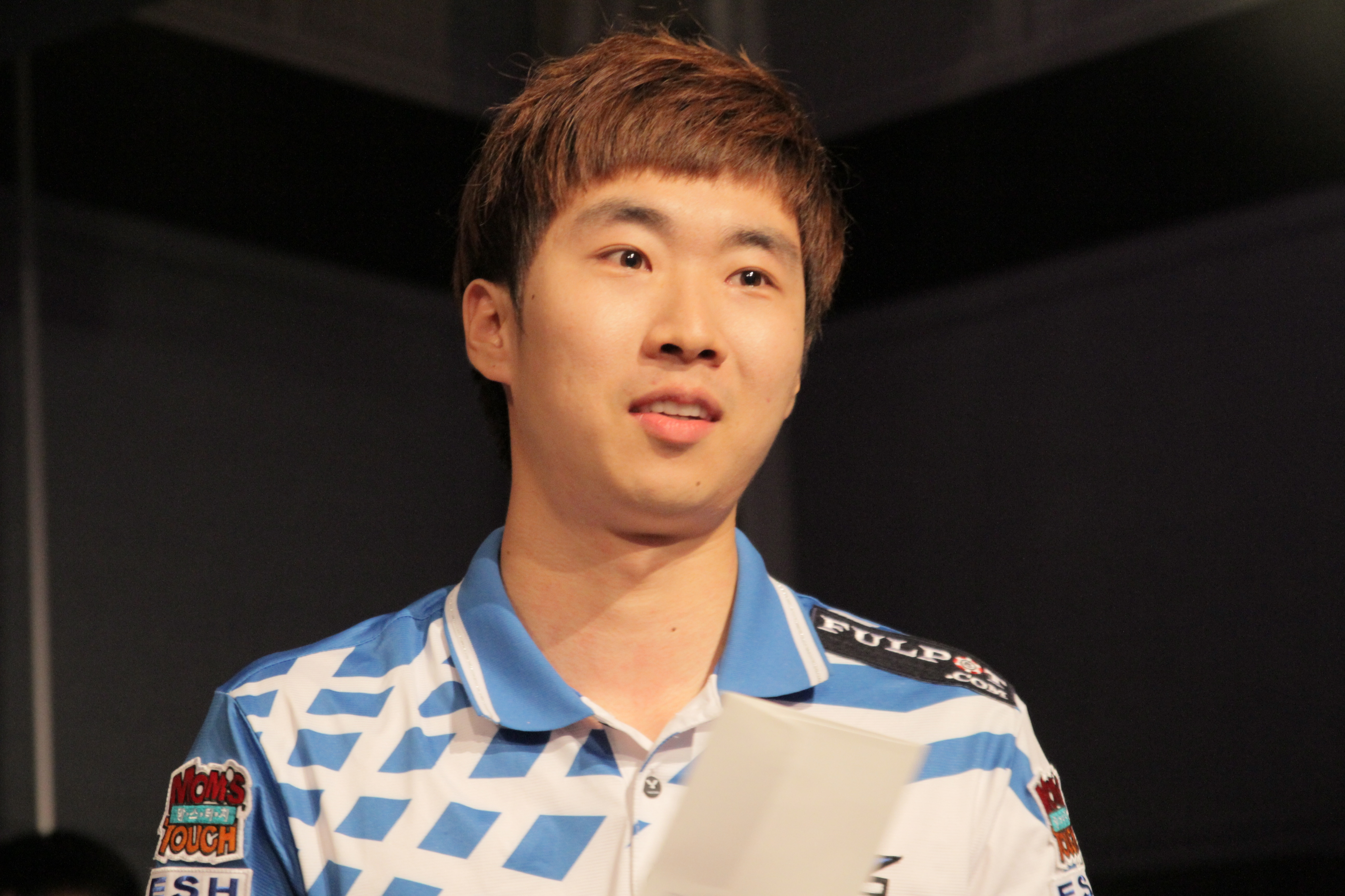 This is oGsNada, a legendary member of the StarCraft team oGs (Old Generations). He's very well known in Korea for his StarCraft 1 matches during the 2000's. The GOMTV Studio in Seoul is where the StarCraft Global Star League (GSL) tournaments are broadcasted.